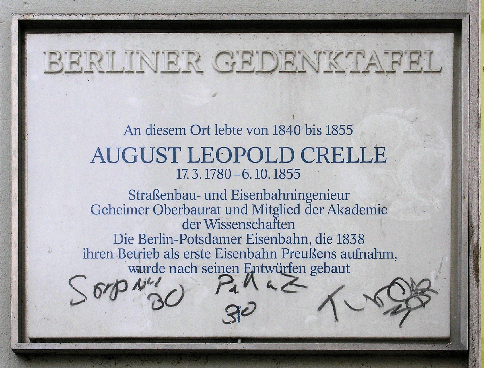 Berlin memorial plaque, August Leopold Crelle, Potsdamer Straße 172, Berlin-Schöneberg, Germany